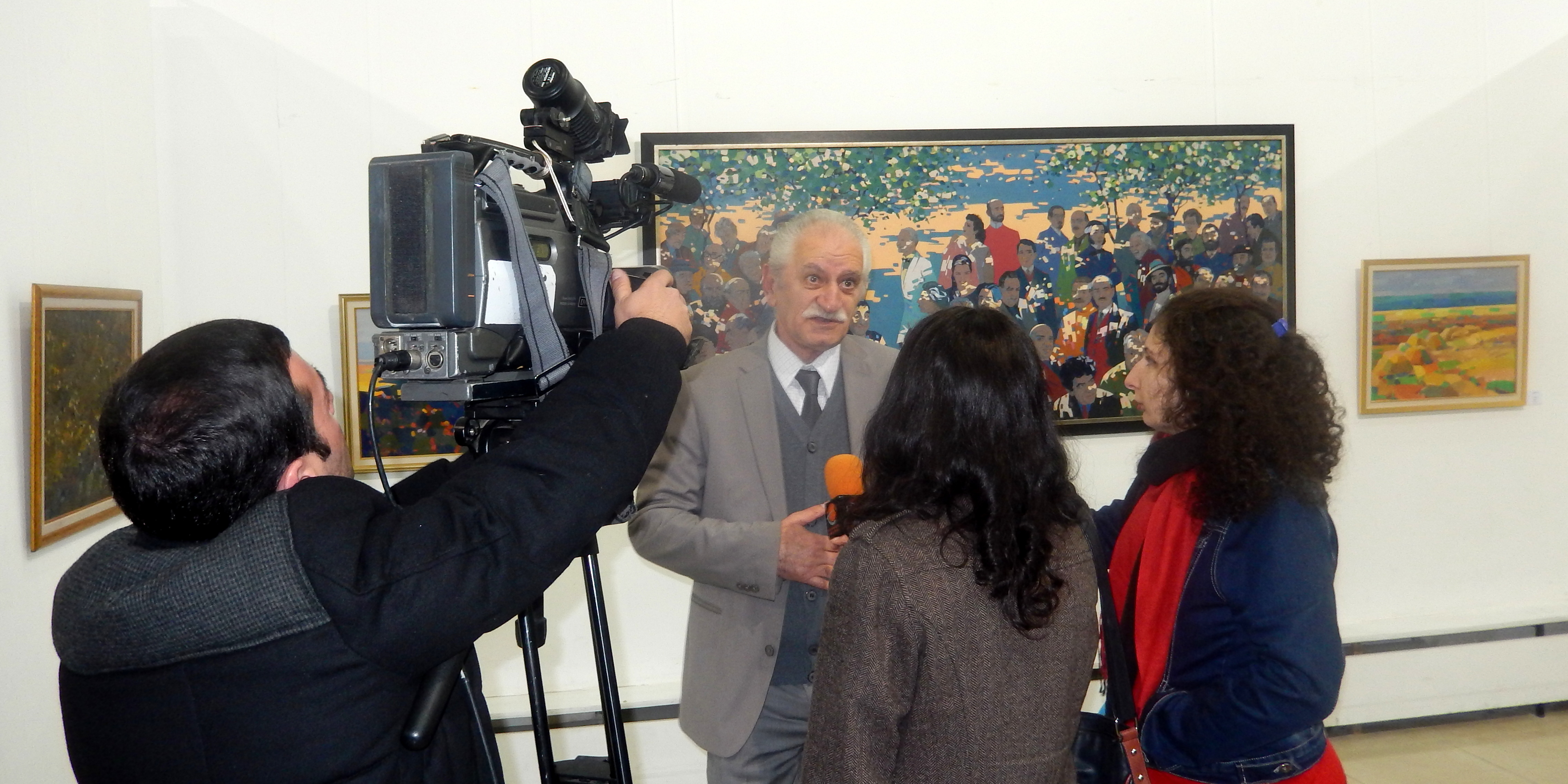 Khachatour Azizyan Personnel Exhibition at Artists Union of Armenia